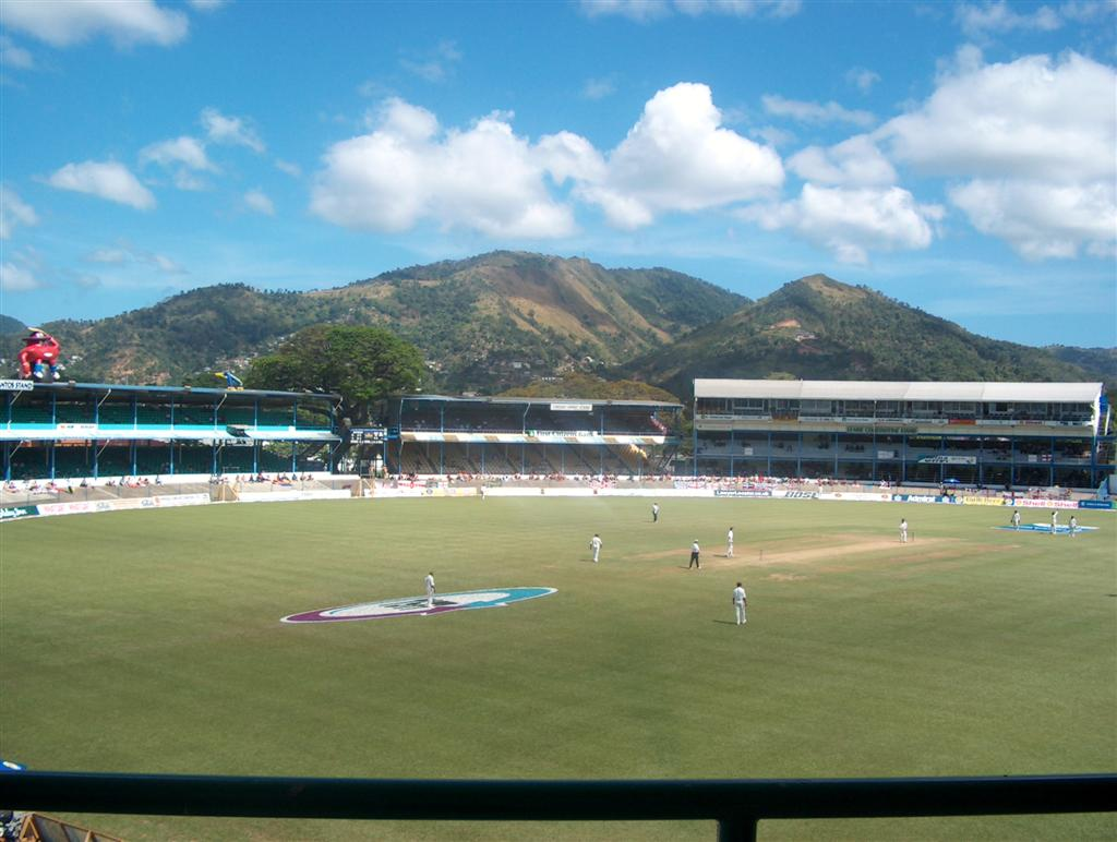 Queens Park Oval, Port of Spain, Trinidad and Tobago